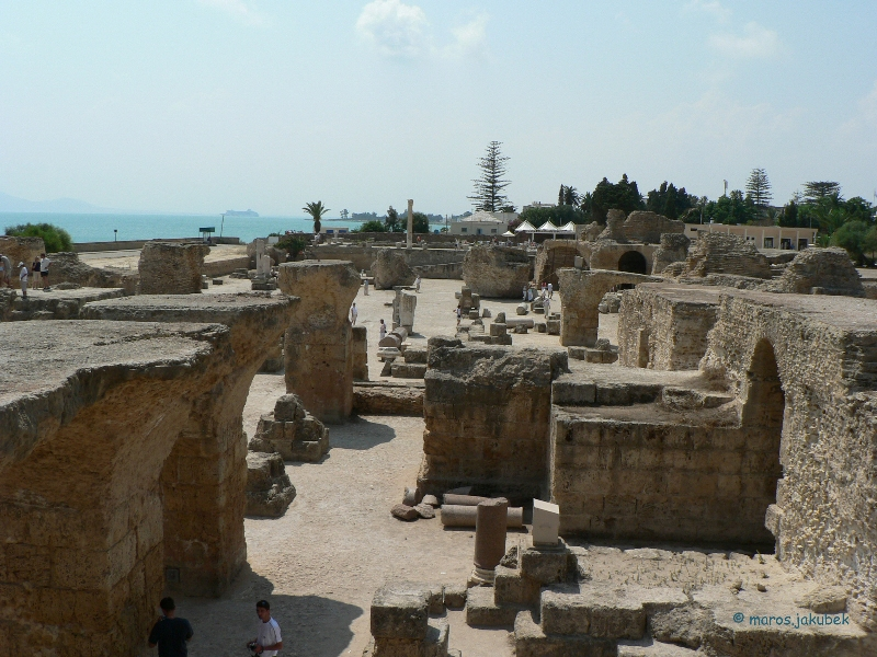 The thermes of Antonio - photo from my holiday